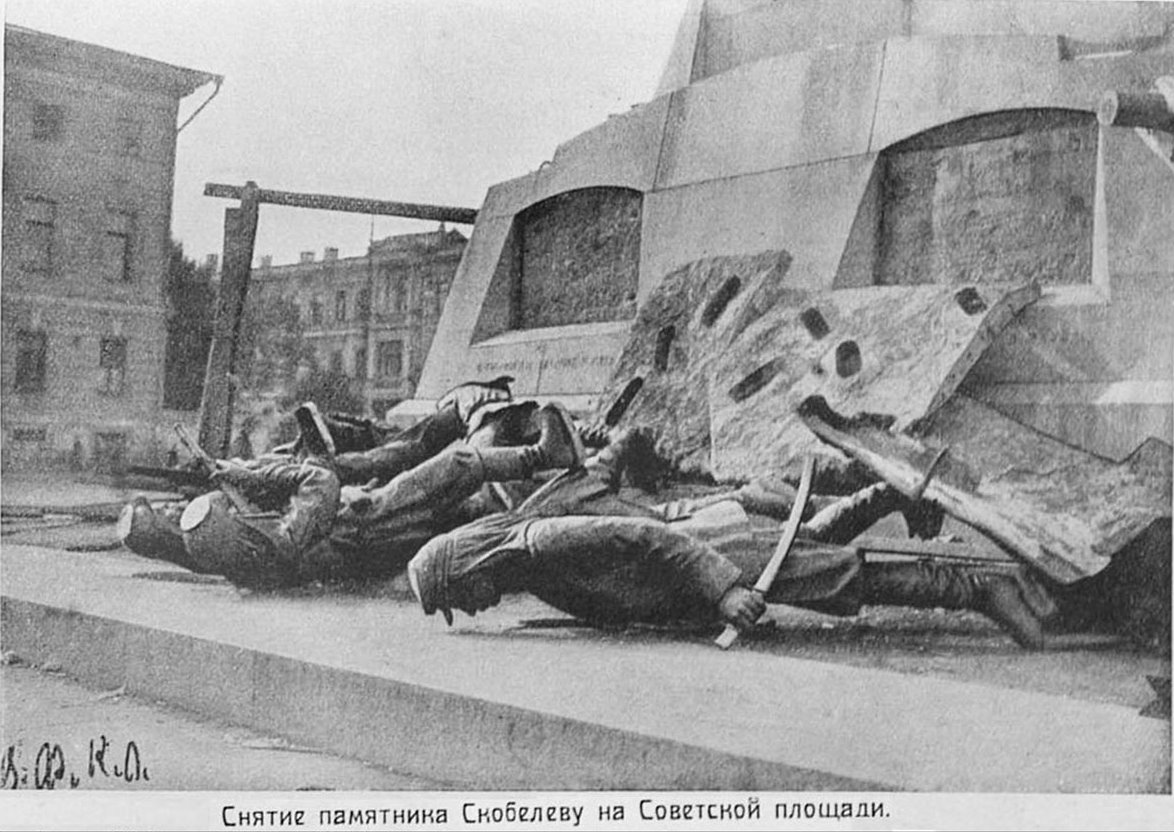 Monument to Russian hero General Mikhail Skobelev dismantle by Bolsheviks in 1918/19